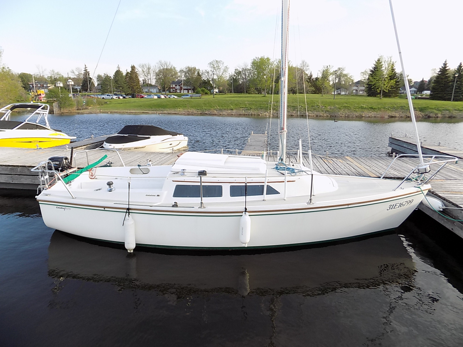 A Catalina 22 sailboat.